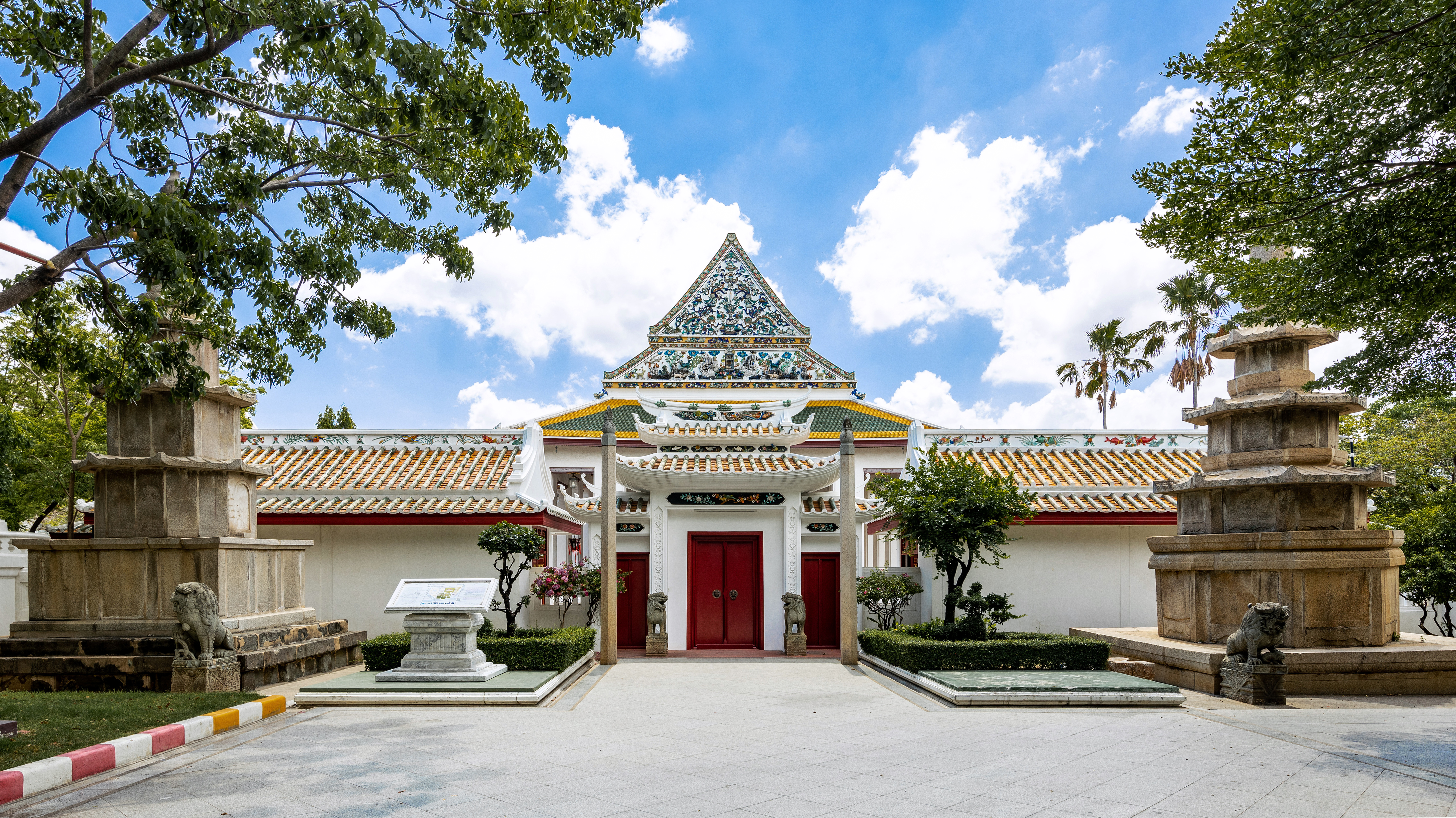 The entrance of Wat Ratcha-orasaram in Chom Thong district, Bangkok.